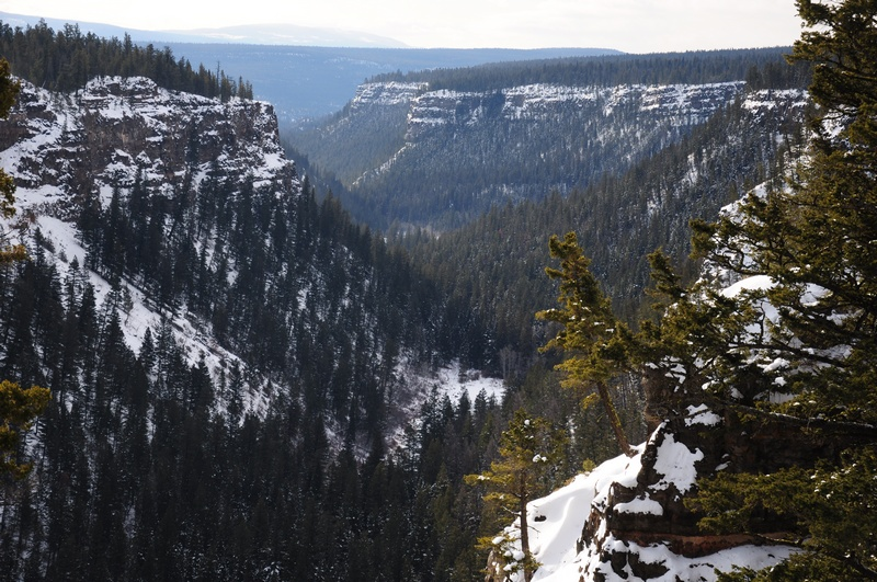 Chasm